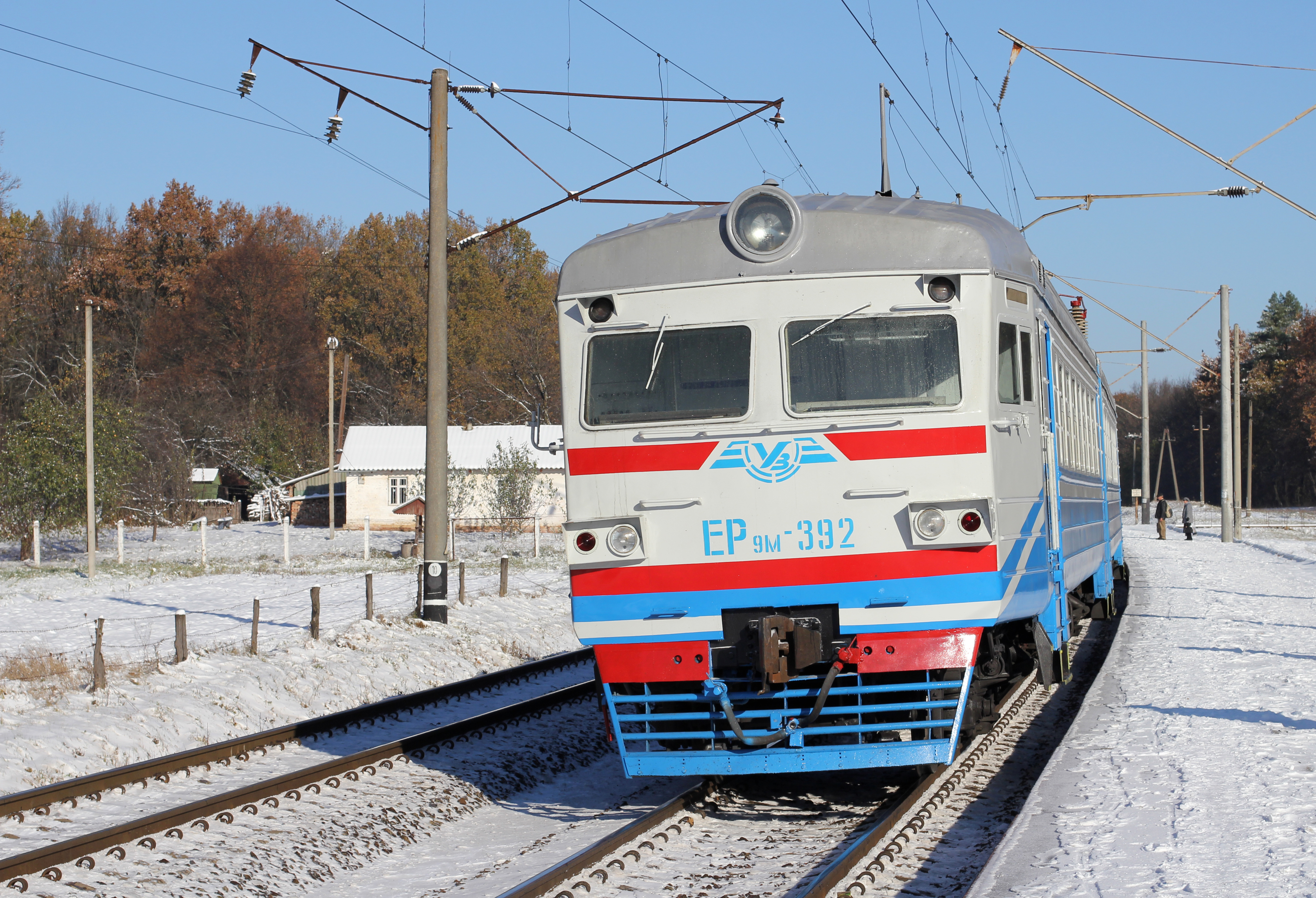 Electric multiple unit ER9M-392 in Desenka railway station in Vinnitsa region. Build 12.1976.